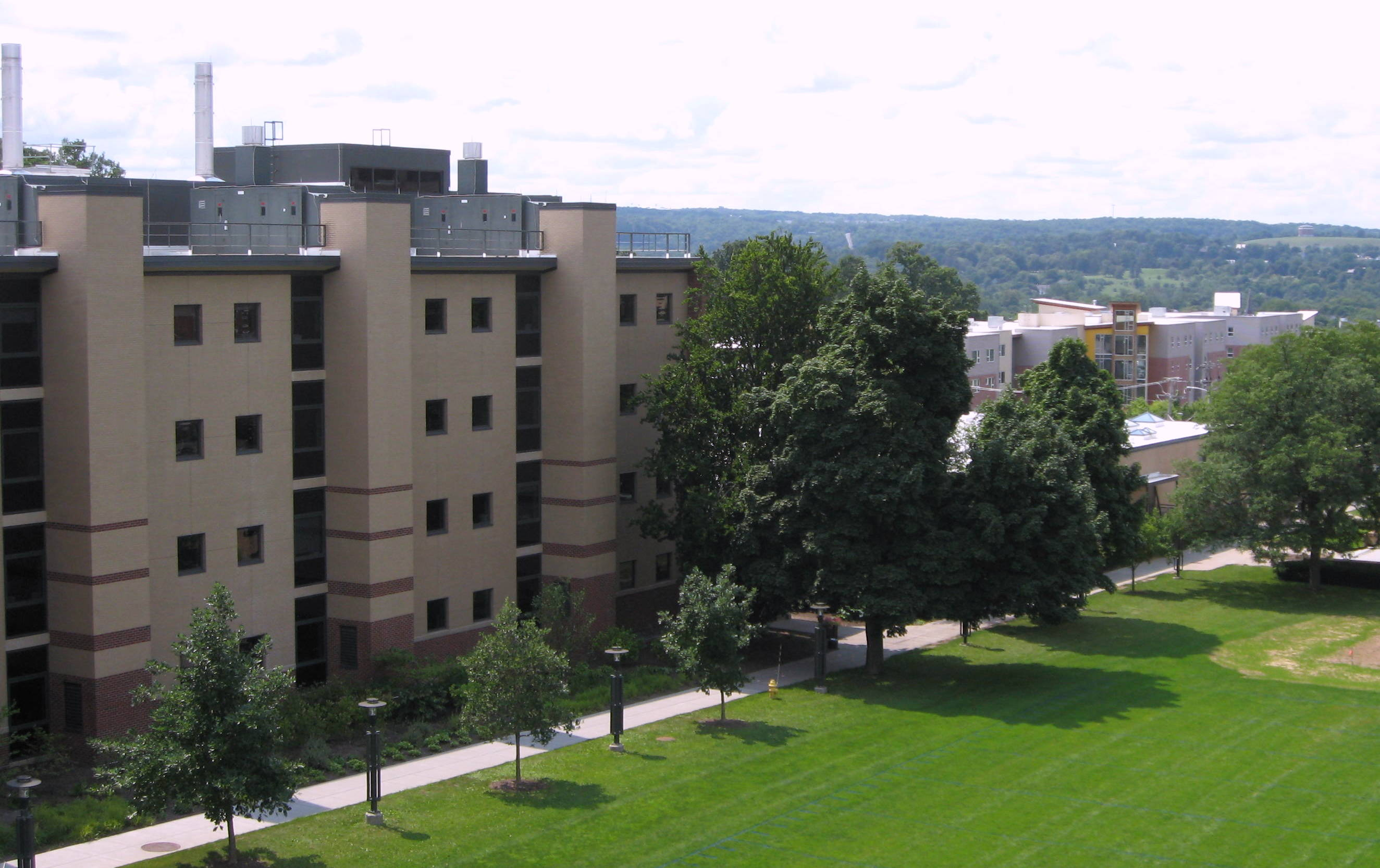 Baker Laboratory & Centennial Hall, SUNY College of Environmental Science and Forestry, Syracuse, NY, August 2014